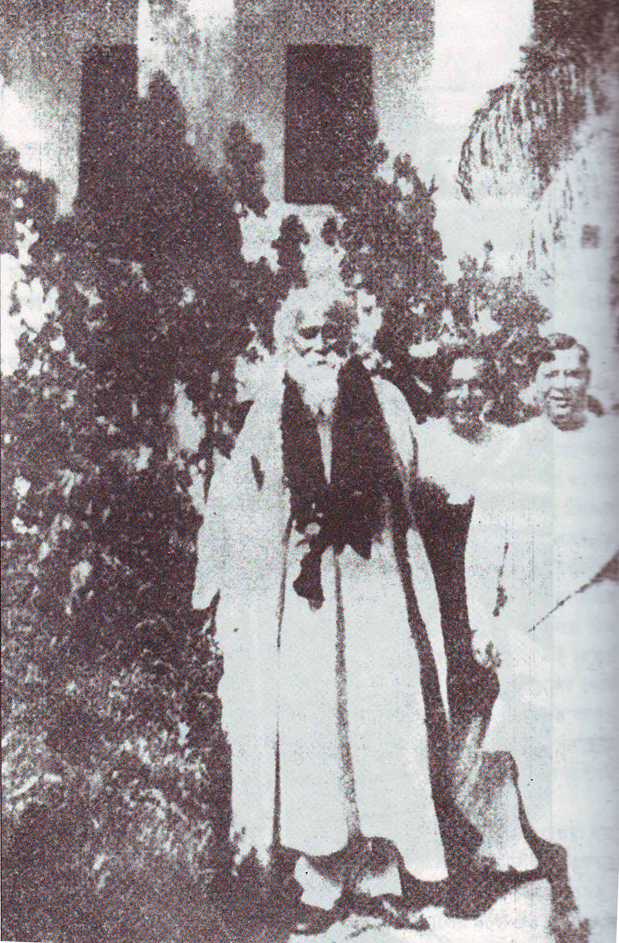 Rabindranath Tagore visiting the University of Dhaka during 1926. In the right, R. C. Majumdar, an Indian historian and a faculty member